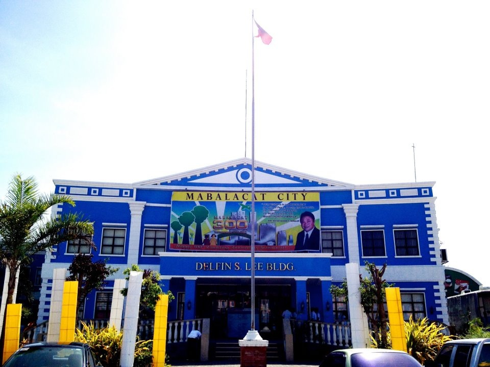 Seat of Office of City Mayor and other officials.